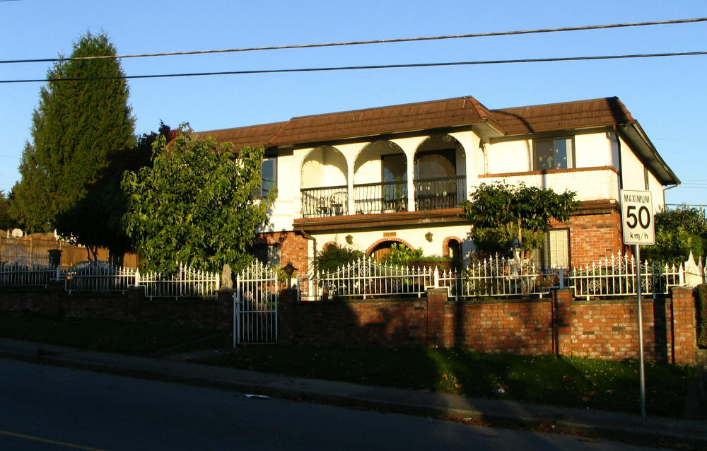 This image was created by me, Flying Penguin of Pacific Spirit Photography ( of Burnaby, British Columbia, Canada